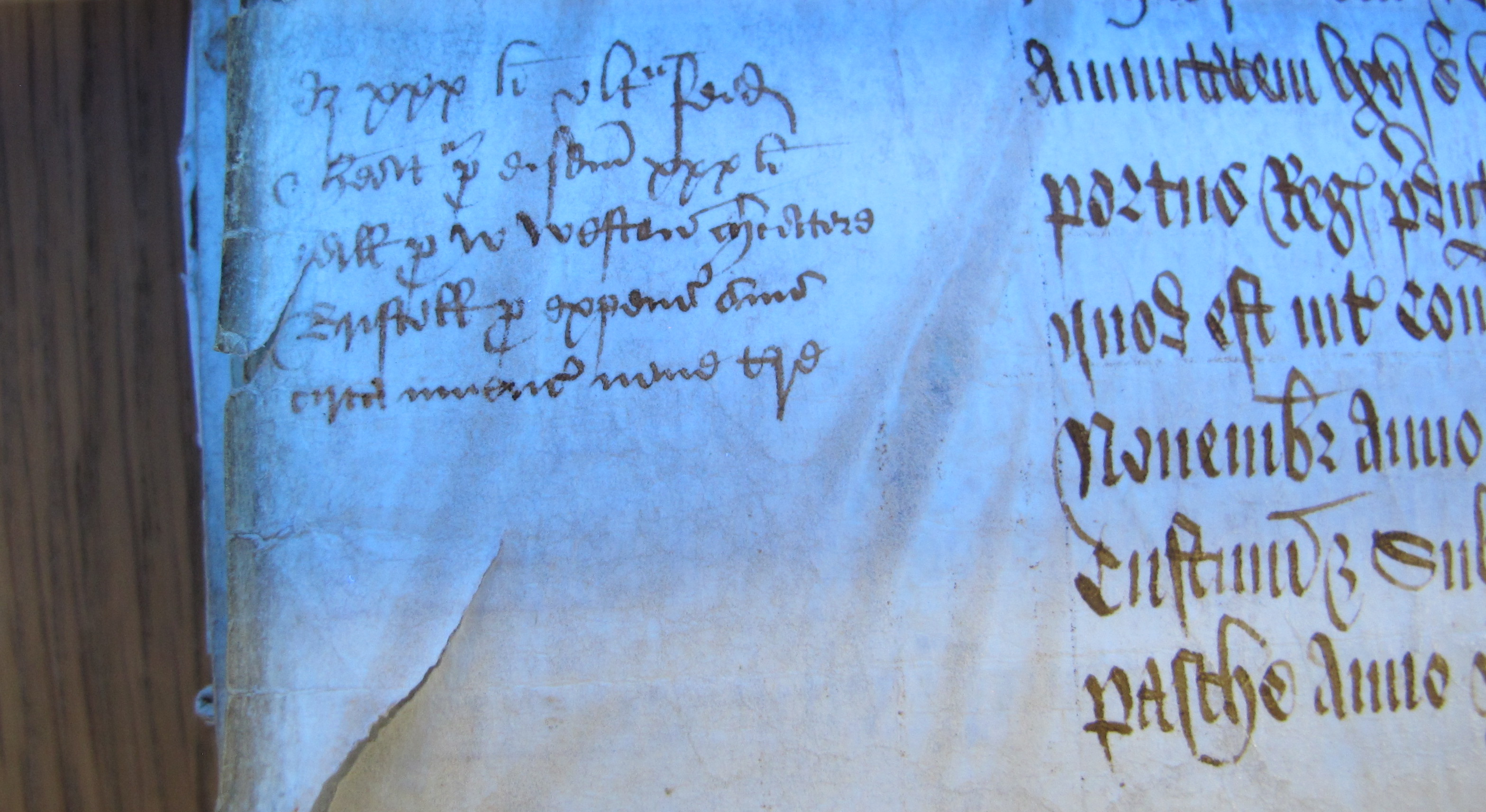 Photograph of the reward payment to William Weston, recorded as a marginal entry in an Exchequer Memoranda Roll: The National Archives (UK), E 356/23, rot. 4, account of customers of Bristol, Mich. 15–16 Hen. VI. The entry is only fully legible under ultra violet light.